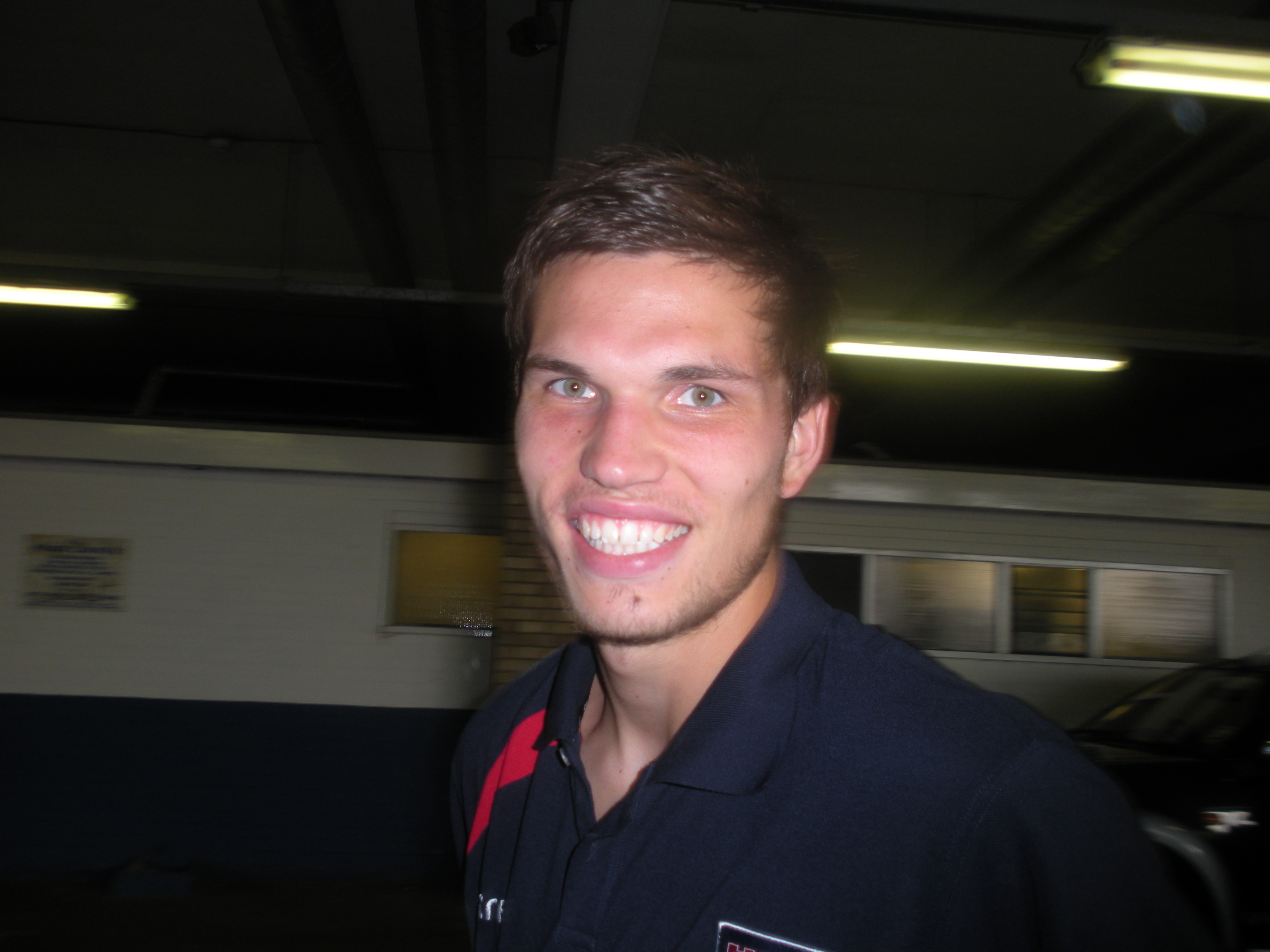 Pim Balkestein, Ipswich Town player. Author gives permission for image to be also used by Simply Blue